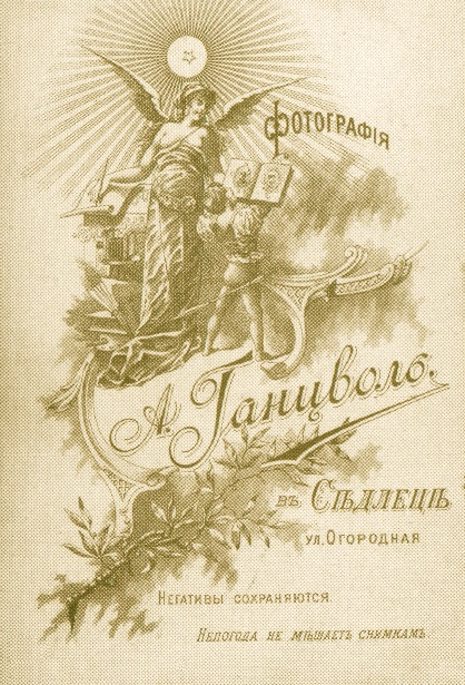 Ad for Gancwol photo studio - on the back of one of the photos